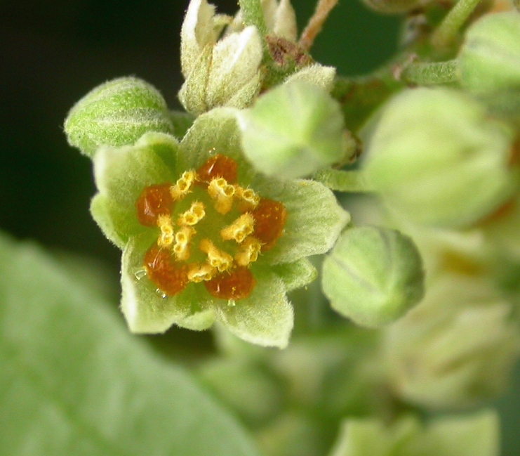 Male flower of Wild peach, Botanical Garden Teplice, Czech republic